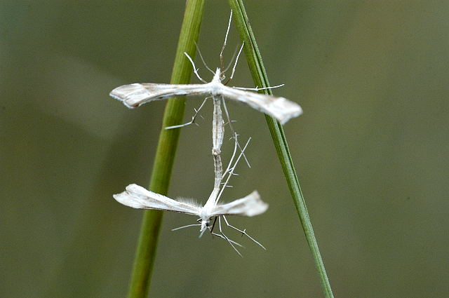 Picture taken in Commanster, Belgian High Ardennes . Species: Gillmeria ochrodactyla couple